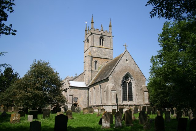 St.Michael's, Swaton, Lincs. Grand cruciform church with fine Early English and Decorated work.